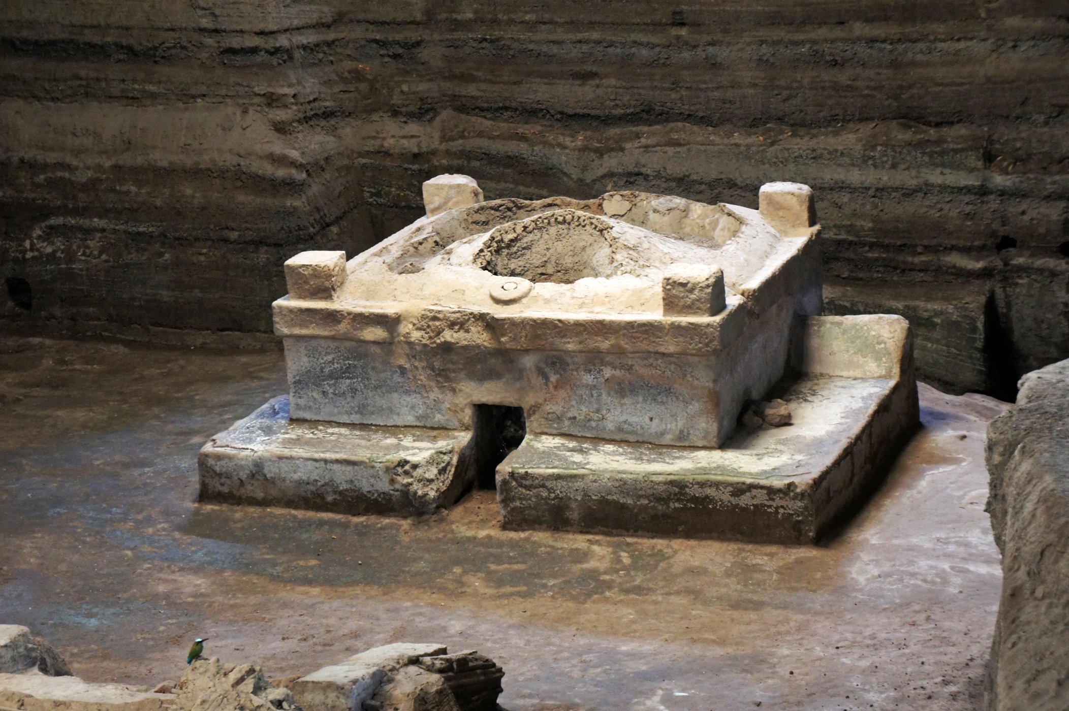 Tamazcal (Structure 9) excavated at Area 2. Remains of maya village of Joya de Cerén buried by volcano eruption around A.D. 600 (El Salvador).